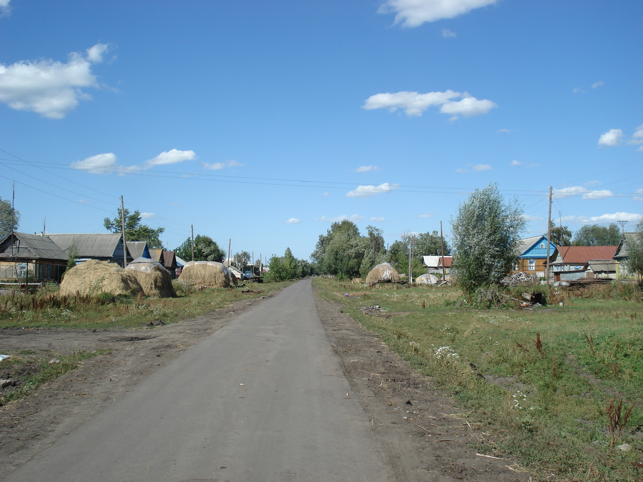 Drakino Mordovia Main Street. Modern view.